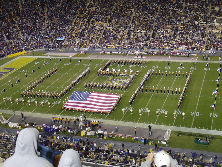 The Louisiana State University Tiger Marching Band pays tribute to veterans and the nation during its annual LSU Salutes halftime performance. Alabama Crimson Tide vs LSU Tigers, November, 11 2006